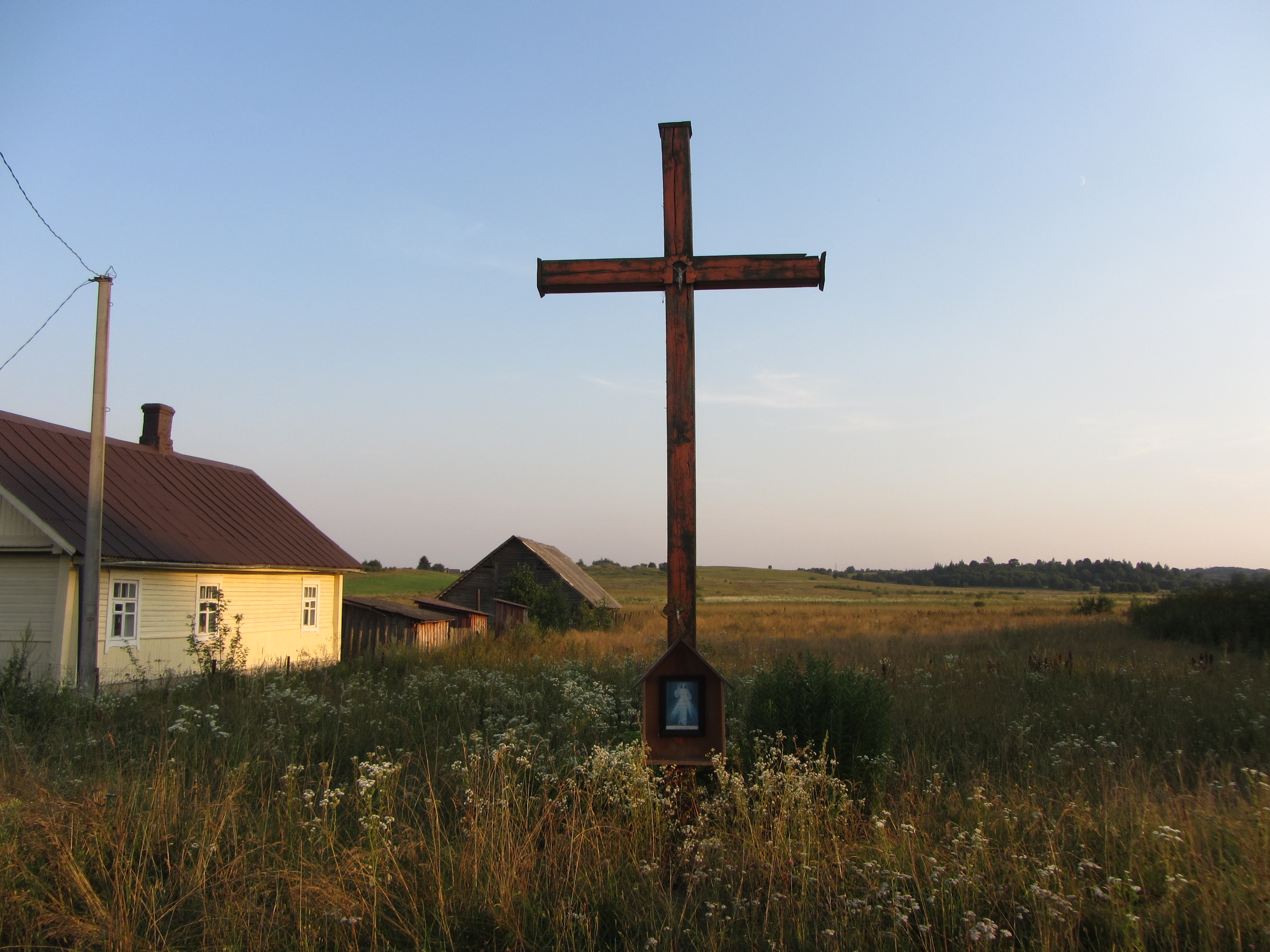 Geibuliai, Lithuania